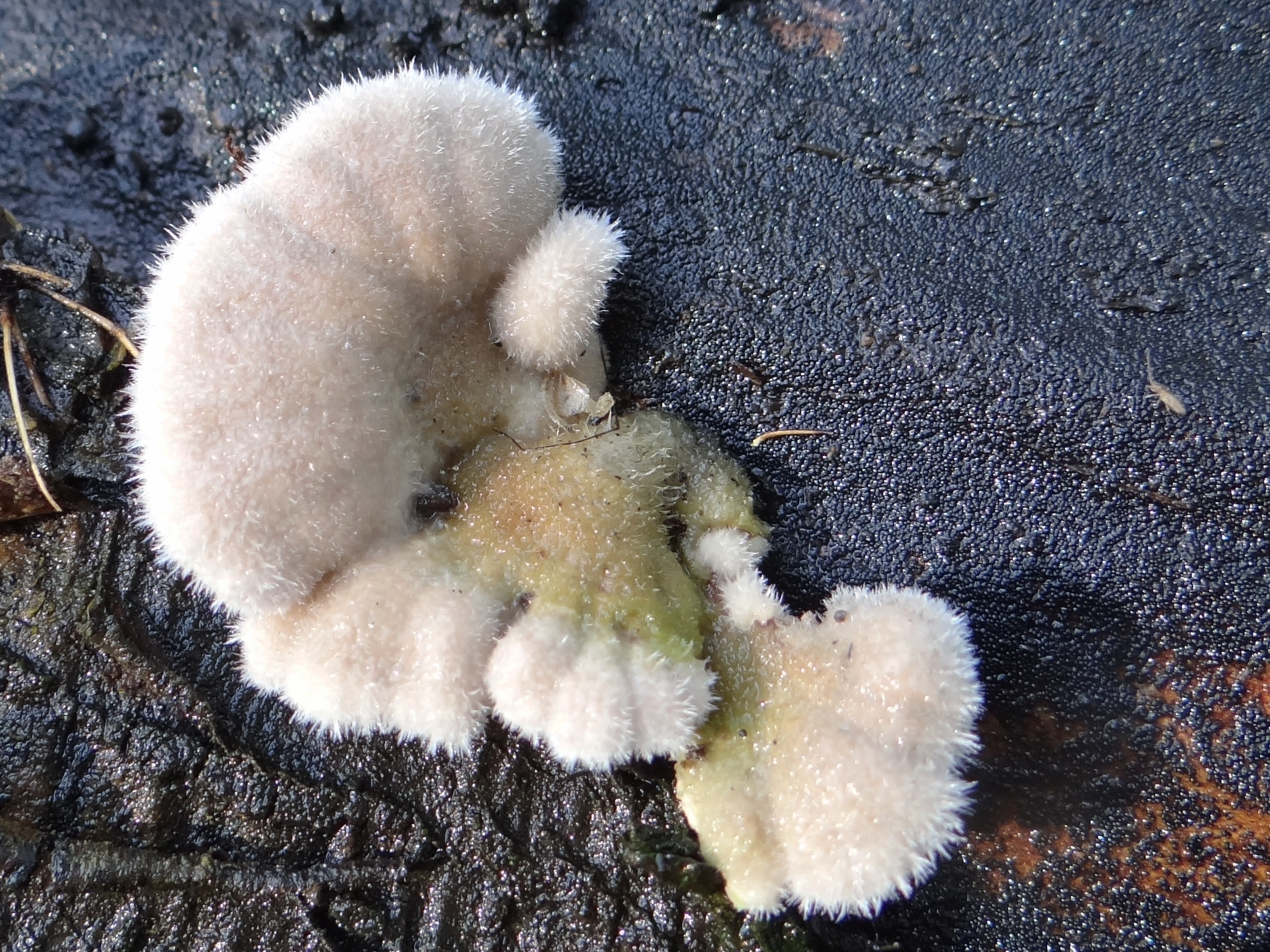 Schizophyllum commune